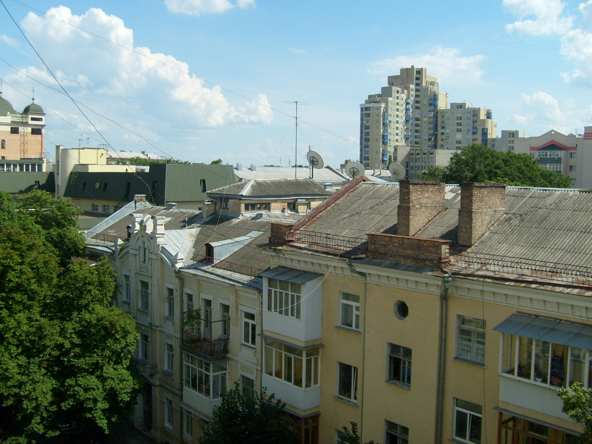 Early XXth century houses in Kiev, Ukraine.